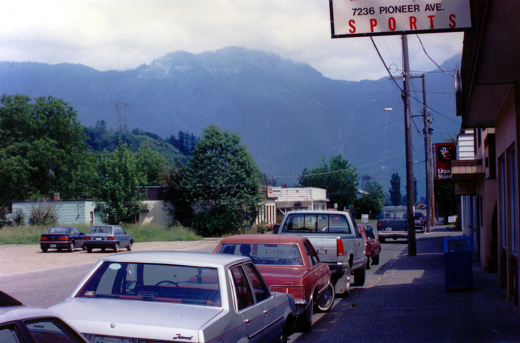 Street in Agassiz, BC in 1992Agassiz, British Columbia 1992